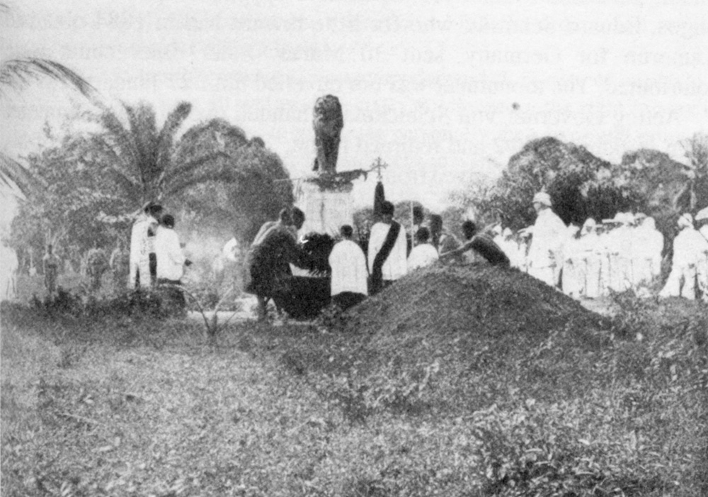 Reburial of Freiherr von Gravenreuth in Douala, 1895